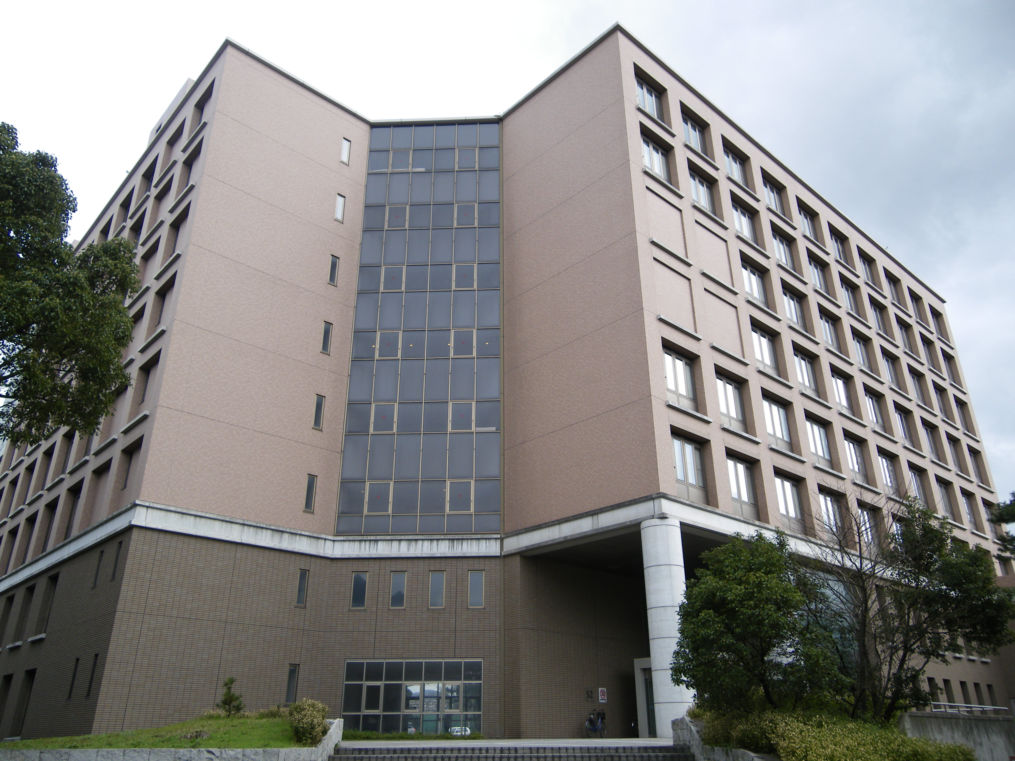 The General Research Building in Tobata Campus,KIT.